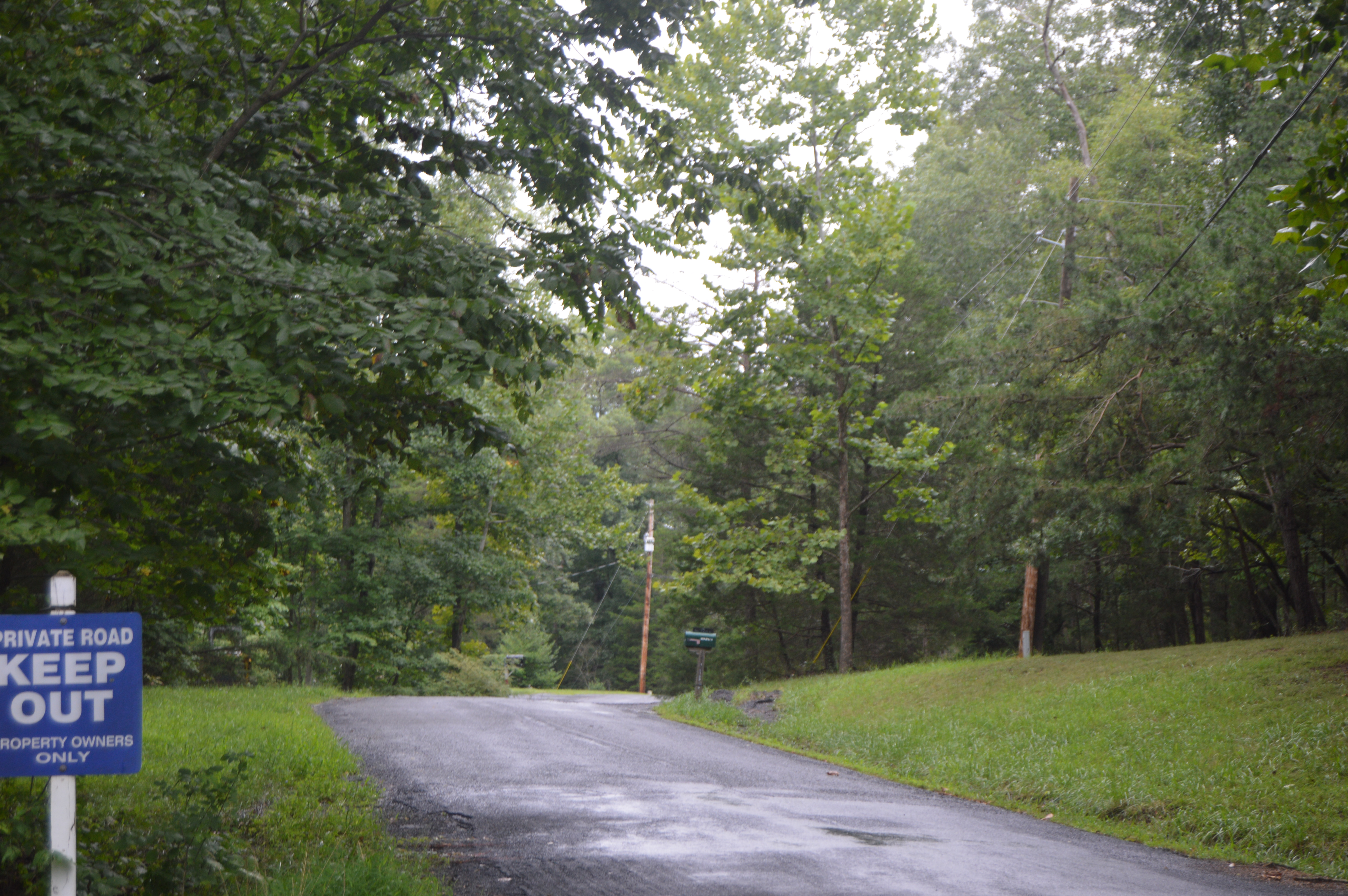 Woodland along Stoney Bottom Road southwest of Front Royal in the Thunderbird Farms area of Warren County, Virginia, United States. This area is part of the Thunderbird Archeological District, a National Historic Landmark-designated collection of archaeological sites that has suffered from the development of an exclusive private community.